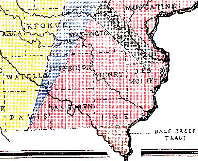 "Map Showing Accession of Territory from Indians" from the original instructions for the Census of Iowa for the Year 1905, Published: 1905-1906, Des Moines, Iowa, Bernard Murphy, State Printer; Under the authority of chapter 8, acts of the 30th general assembly, page iii